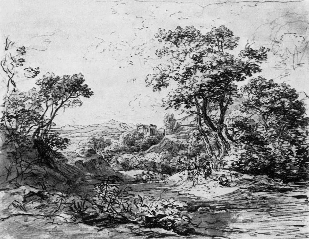 Landscape Sketch